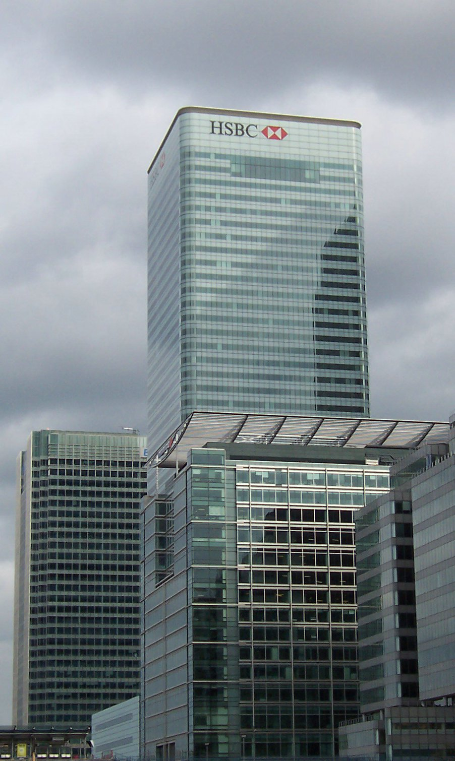 HSBC Tower, the international headquarters for HSBC Holdings plc in Canary Wharf, London. Photo taken in 2005.